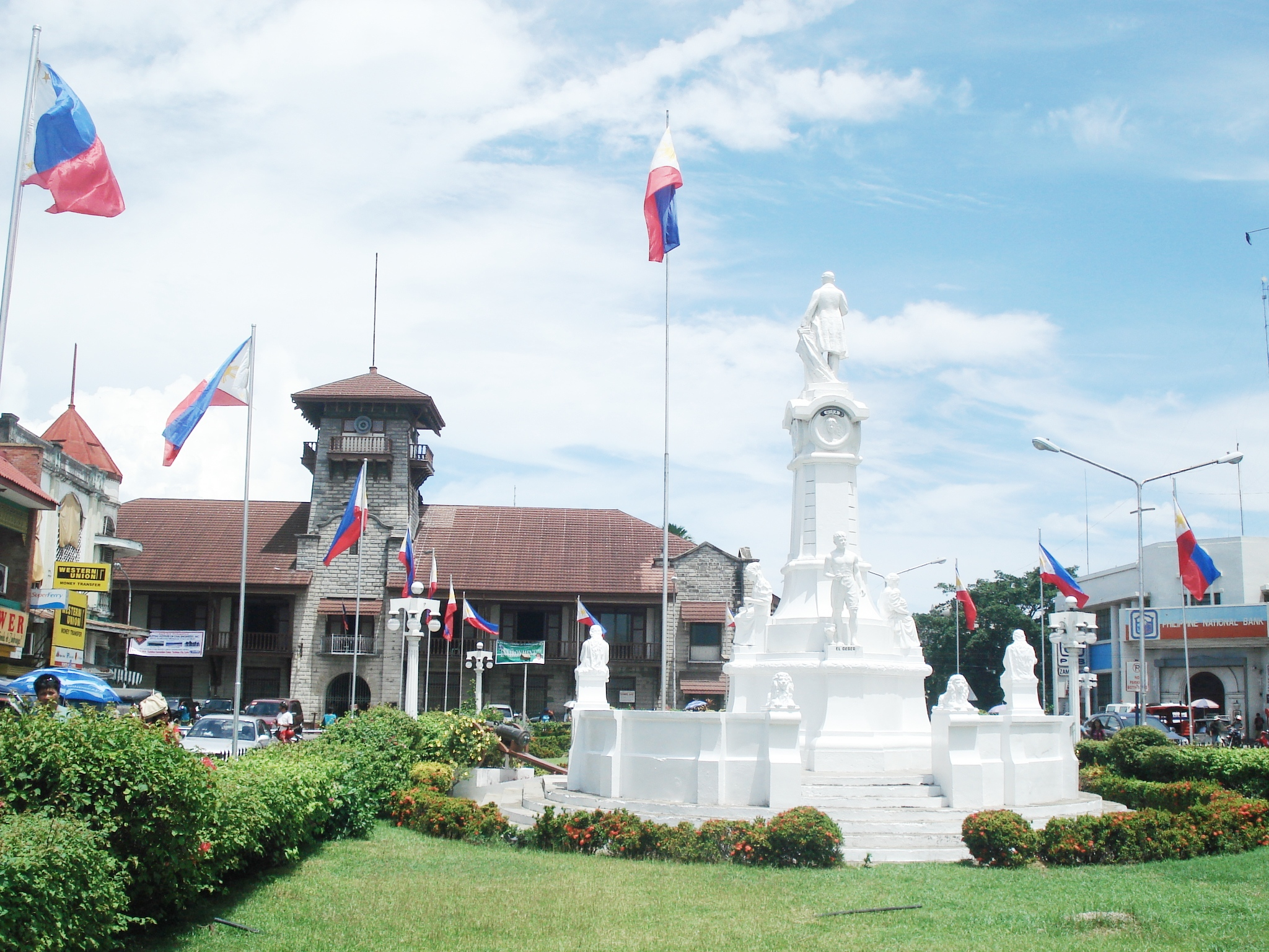 Zamboanga City Hall y Riza Monument